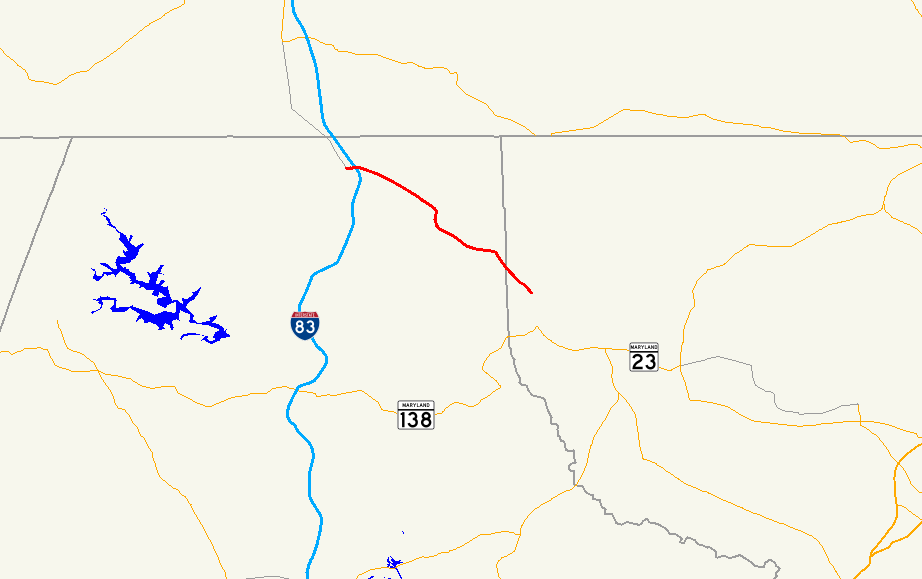 Map of Maryland Route 439